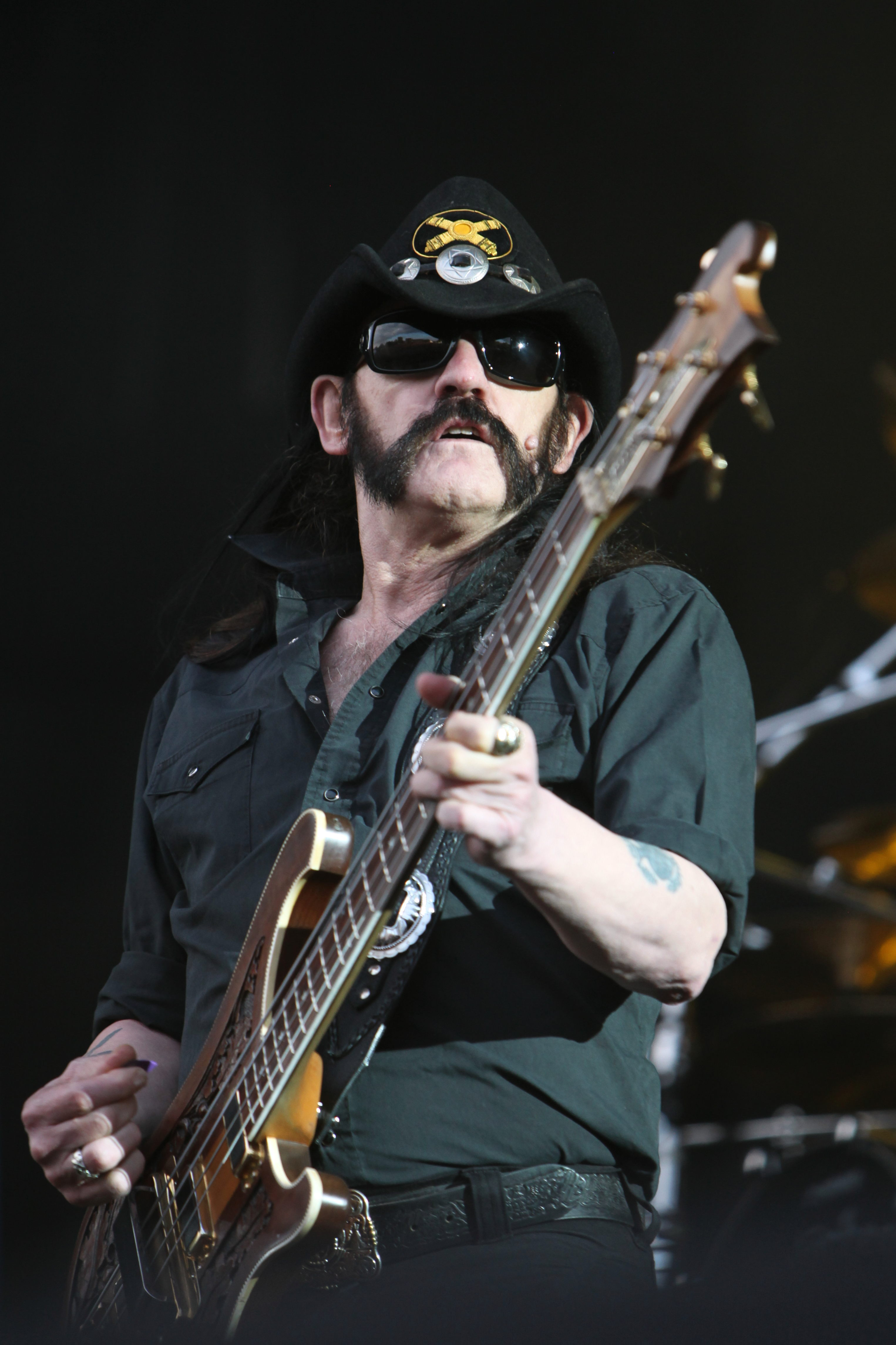 Motörhead at the Eurockéennes de Belfort 2011 The making of this document was supported by Wikimedia CH. (Submit your project!) For all the files concerned, please see the category Supported by Wikimedia CH.